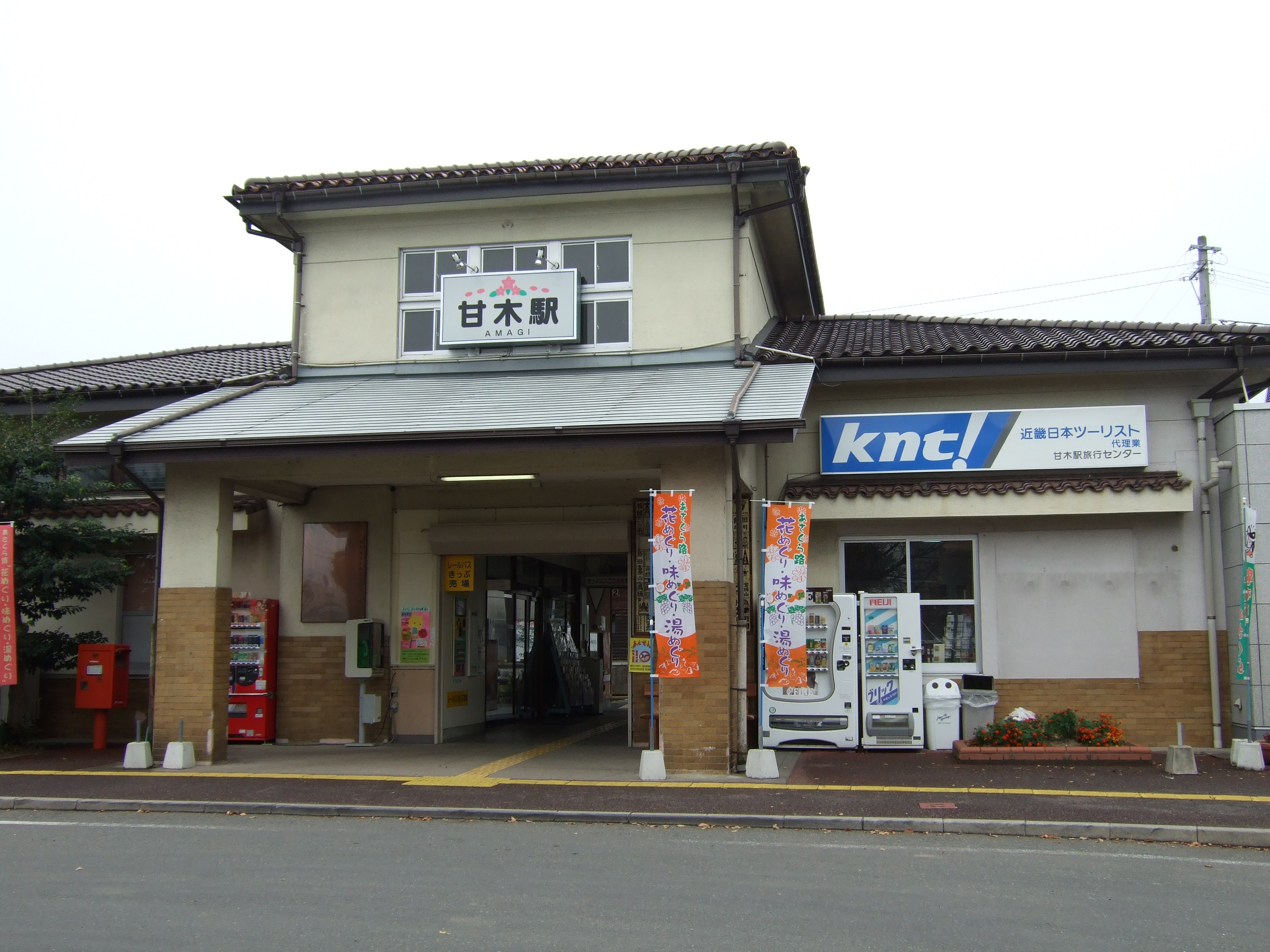 甘木鉄道甘木駅駅舎